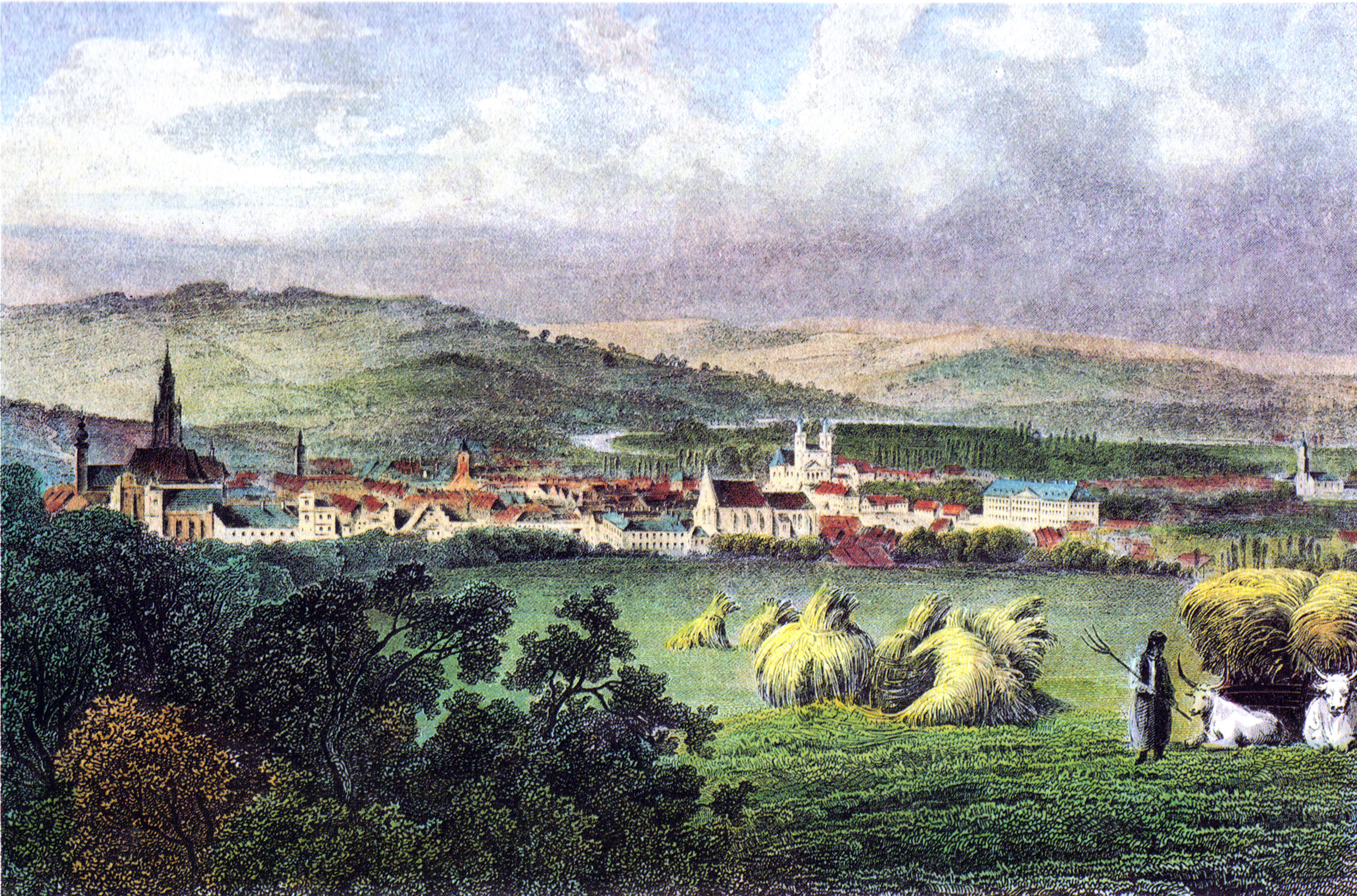 Cluj around 1840